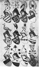 Folio 67 from Armorial Bellenville